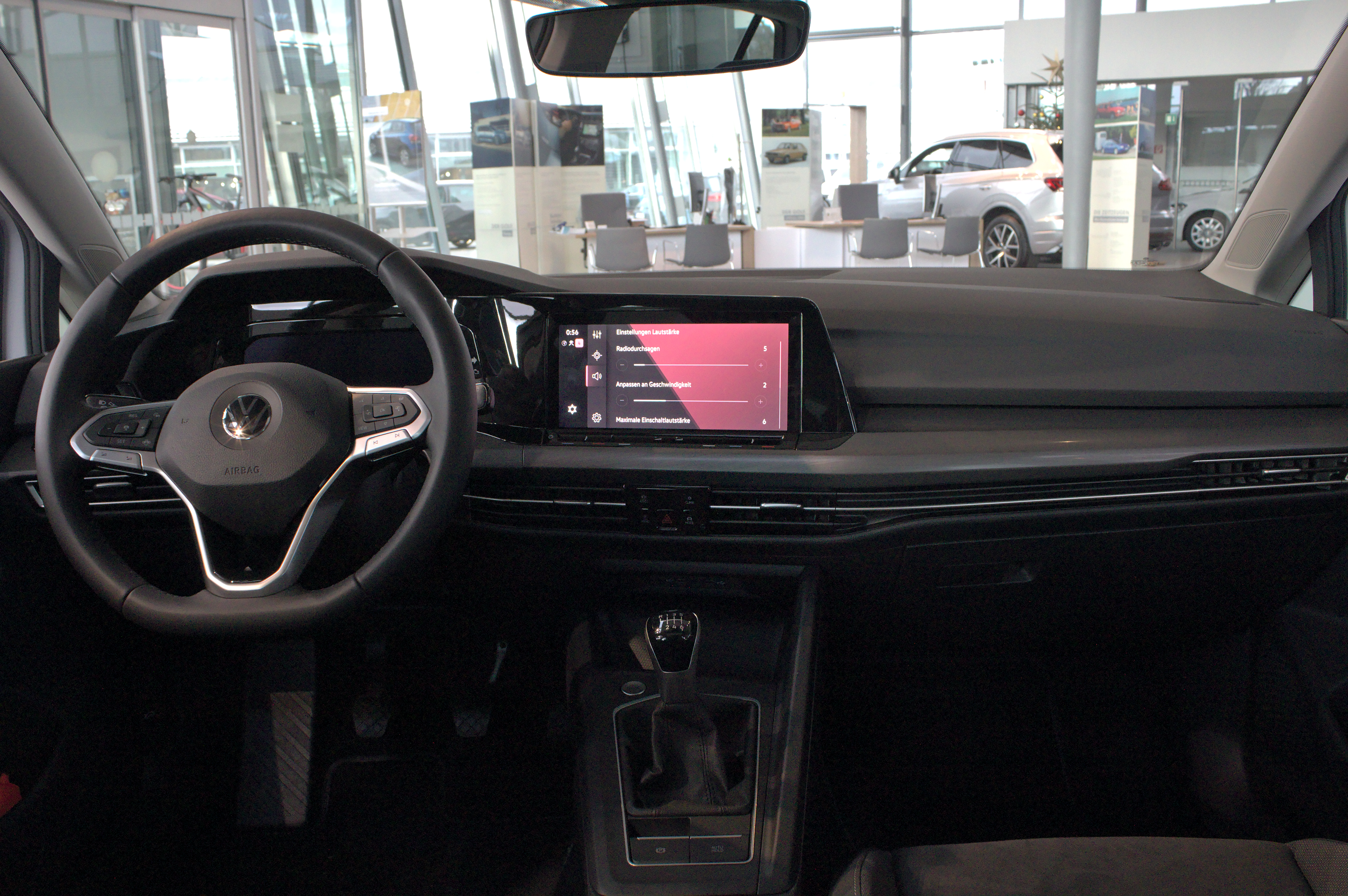 Volkswagen_Golf_VIII in Stuttgart-Vaihingen